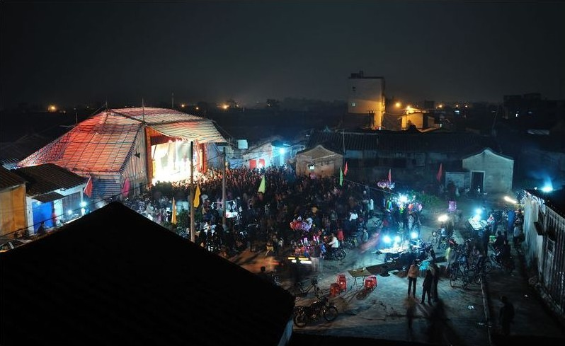 Performance of Teochew opera in the Puning's village，Guangdong Province,China